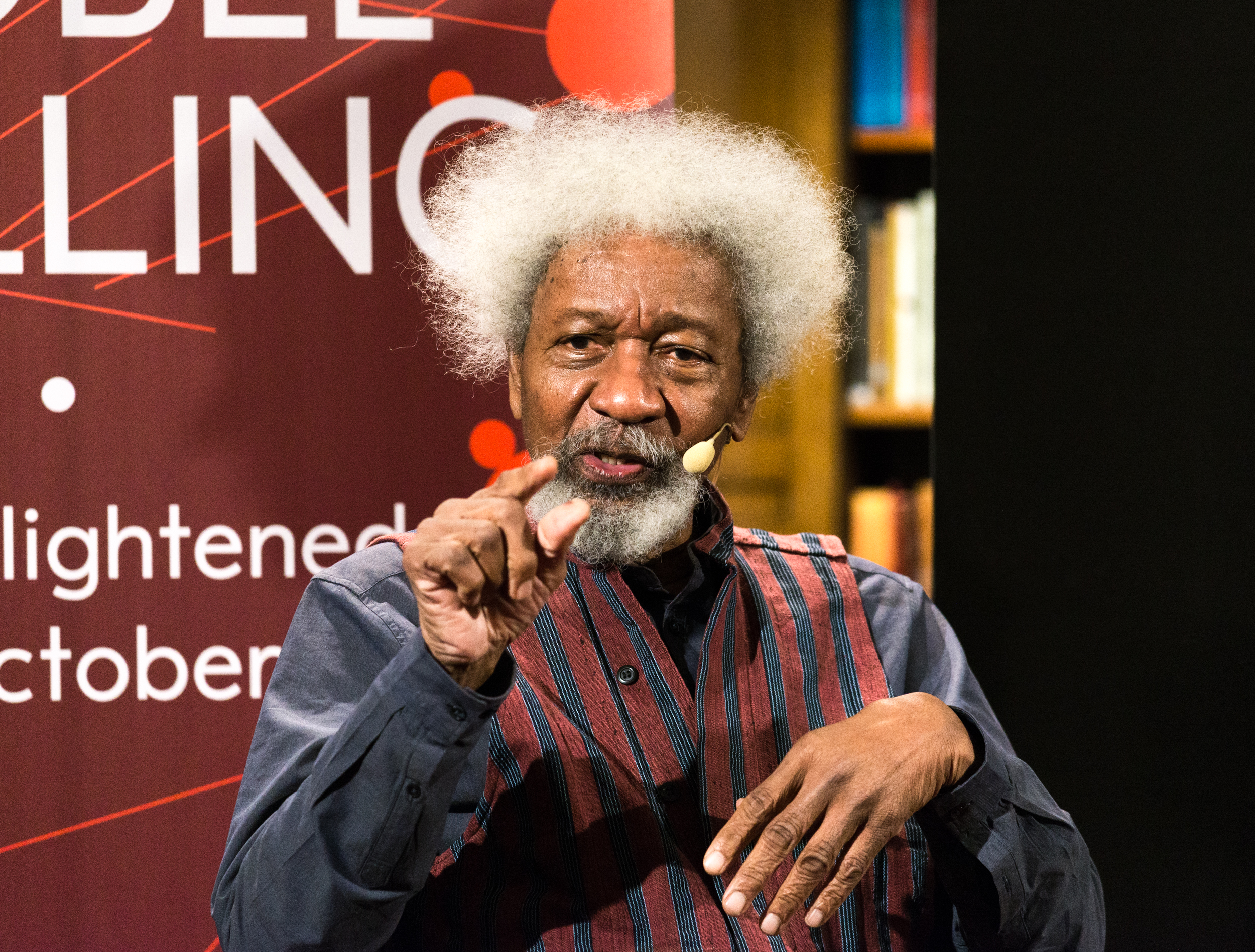 1986 Nobel Prize winner in Literature Wole Soyinka during a lecture at Stockholm Public Library on October 4, 2018.